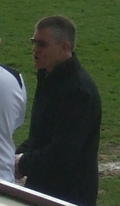 John Mackin attending York City's match against Eastbourne Borough at Bootham Crescent, York on 18 April 2009